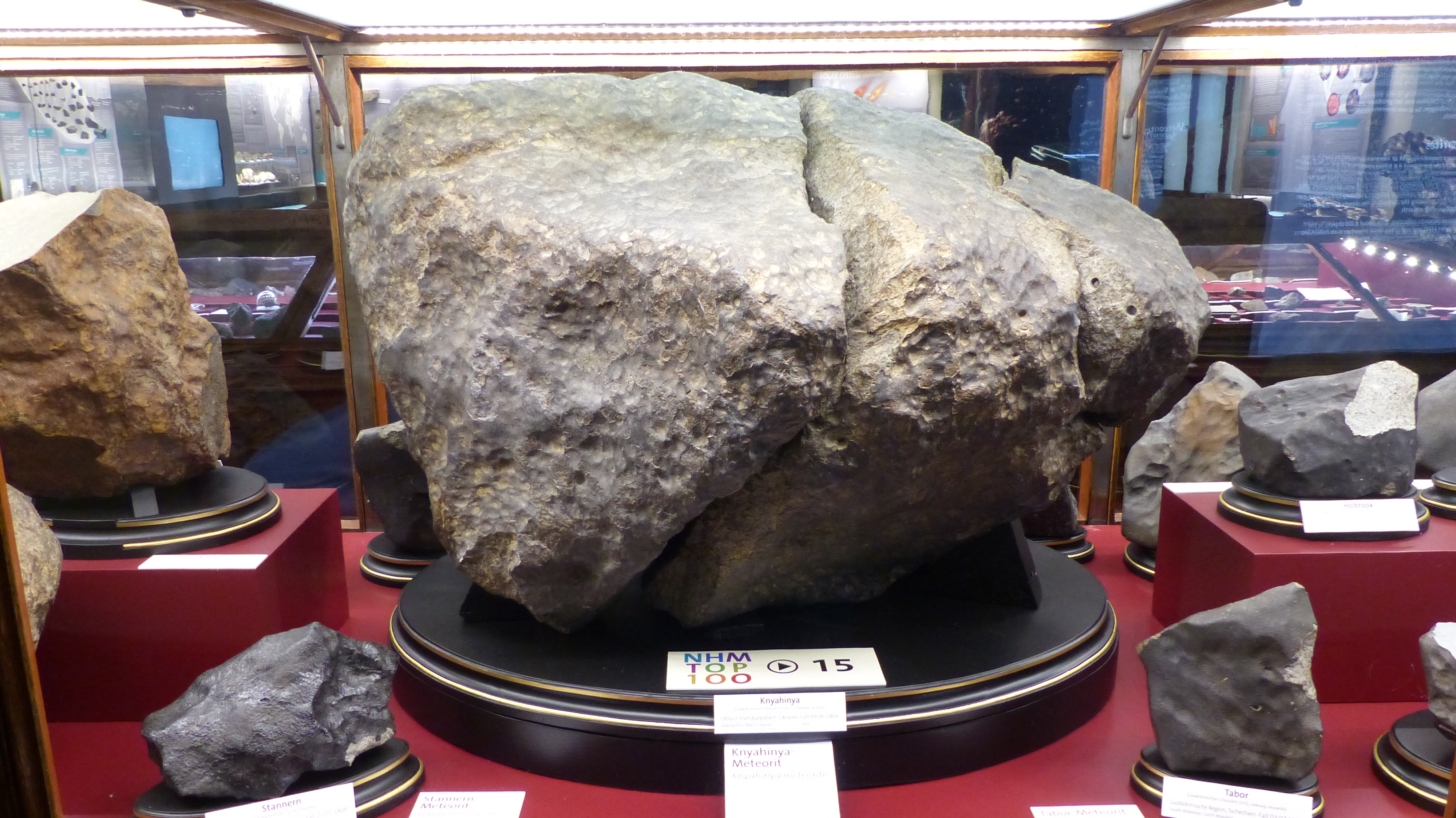 Knyahinya meteorite, L/LL5. Nature History Museum Vienna